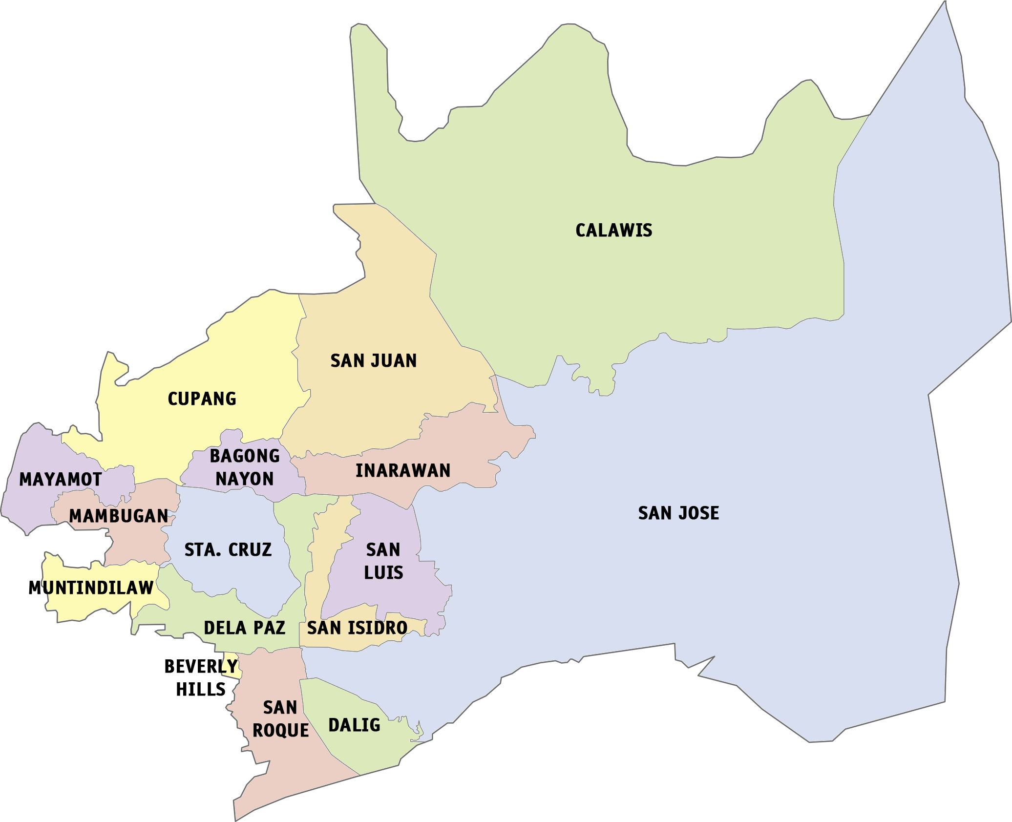 Political map of Antipolo, Rizal, Philippines. Tagalog: Mapang politikal ng Antipolo, Rizal, Pilipinas.